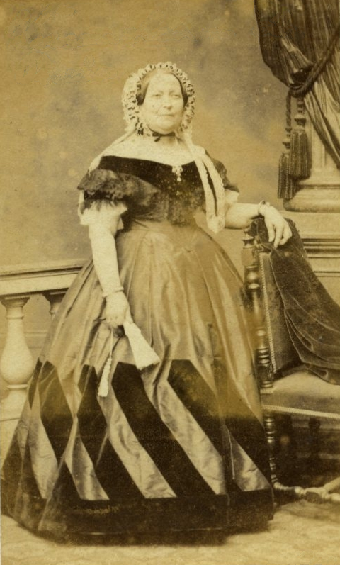 Ana Teodora de Medeiros Sousa Dias da Câmara, Viscountess of Praia (1800-1883)